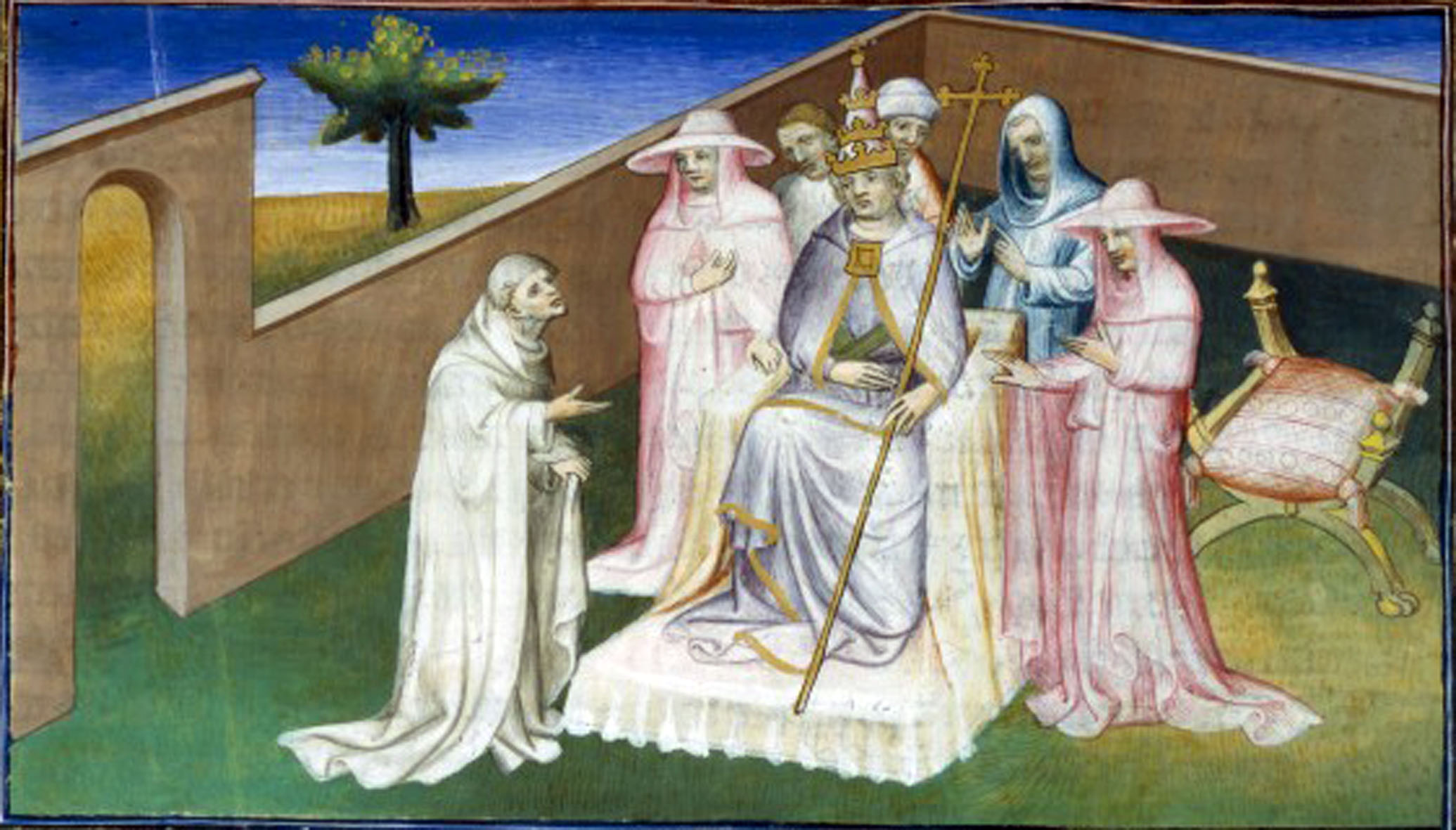 Hayton of Corycus and Pope Clement V. Fleur des histoires d'orient.